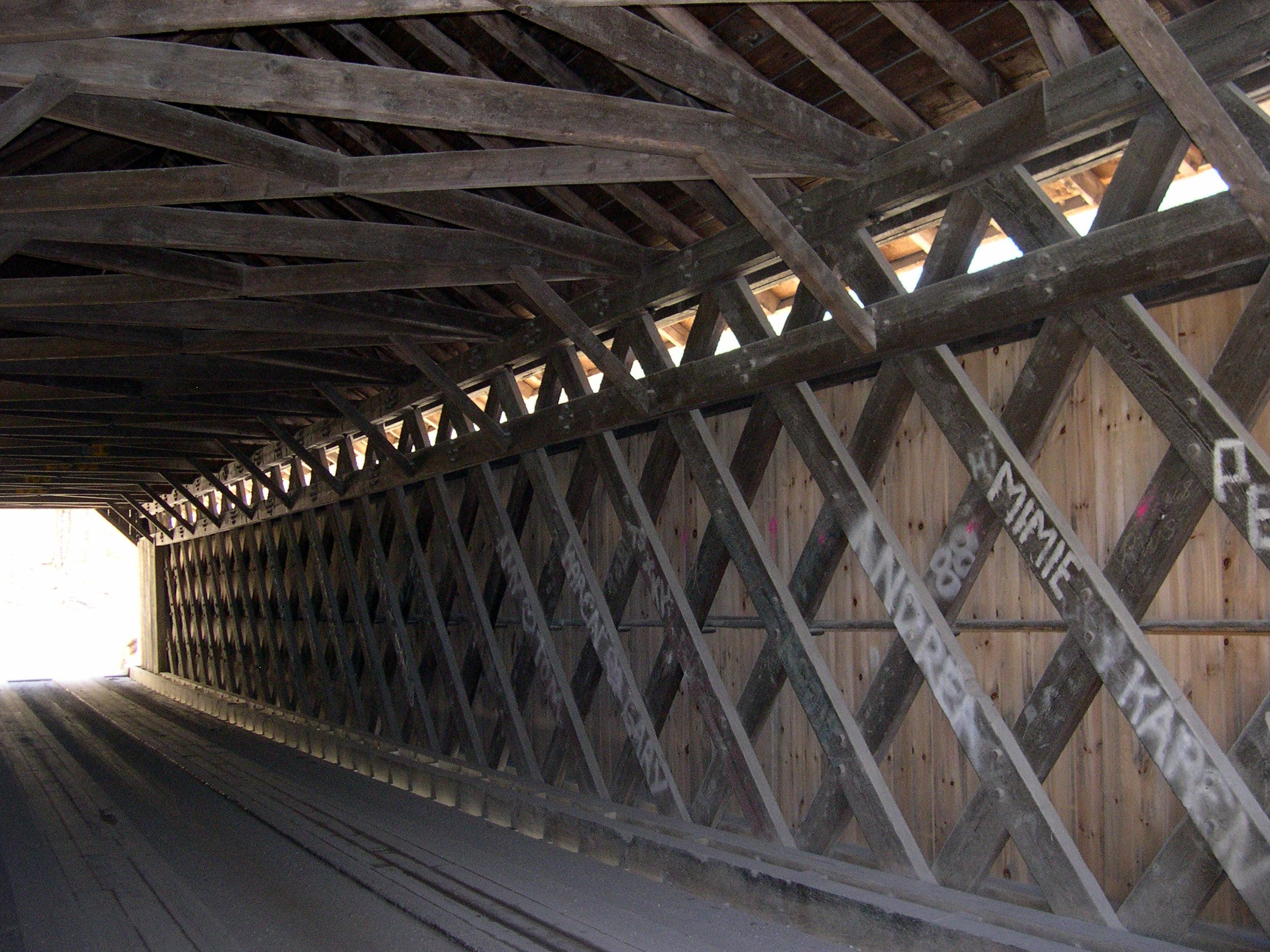 Brown Covered Bridge North Clarendon, VT